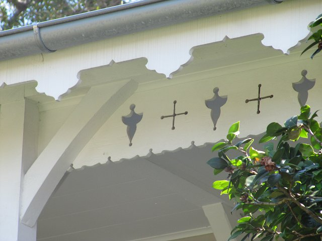 The Chalet